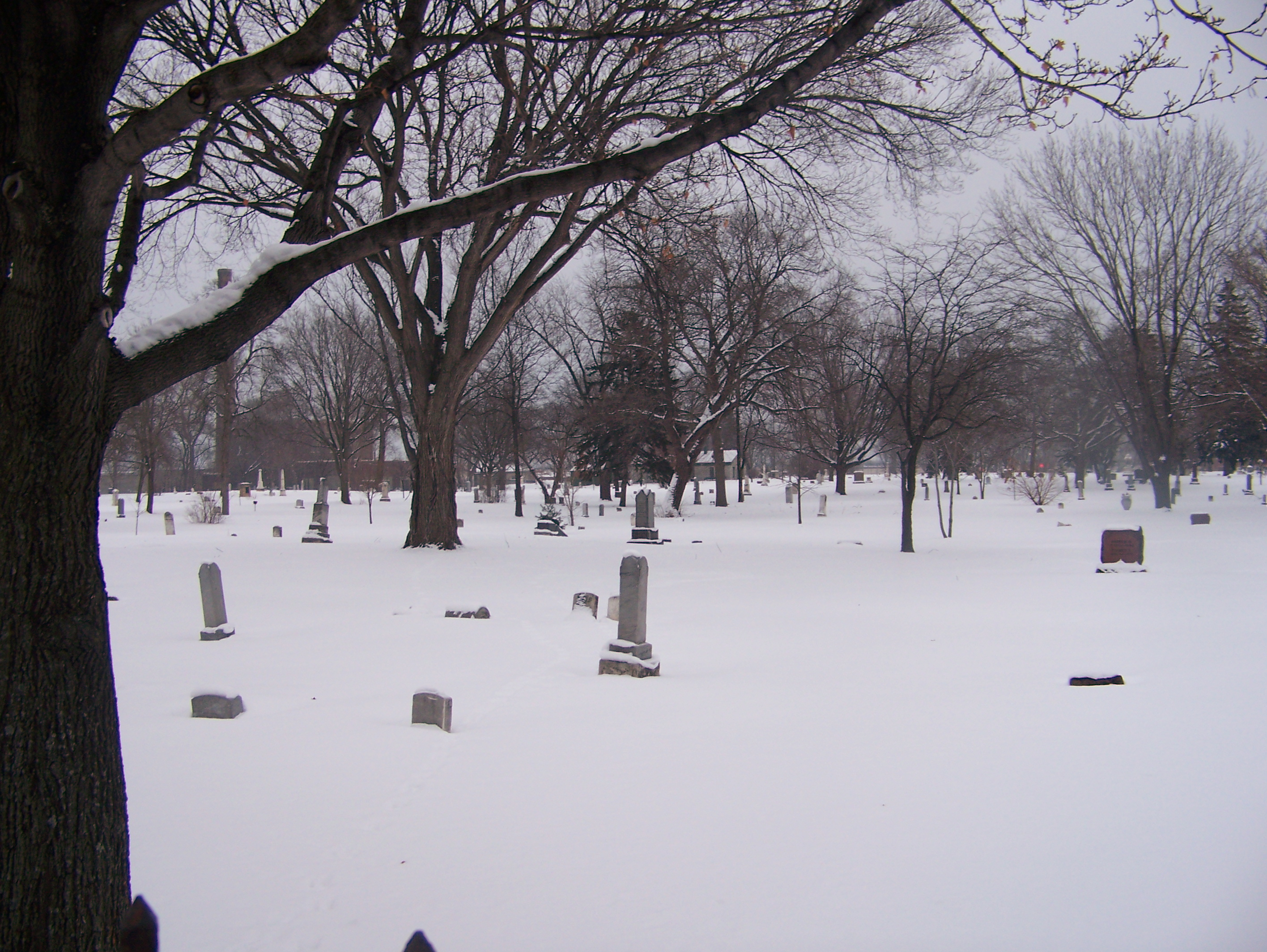 The Minneapolis Pioneers and Soldiers Memorial Cemetery in winter